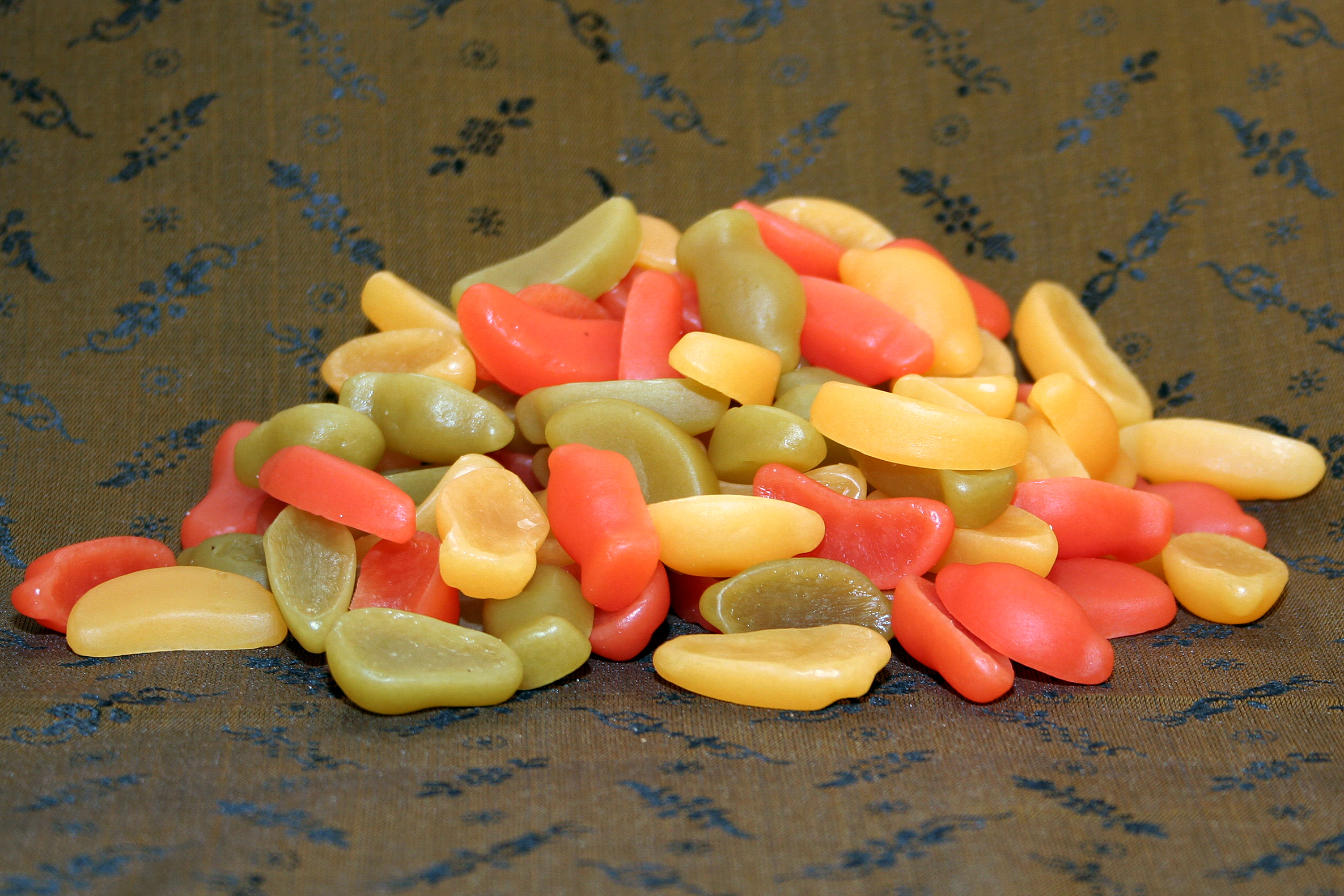 "Fruxo" candy from Malaco candy brand